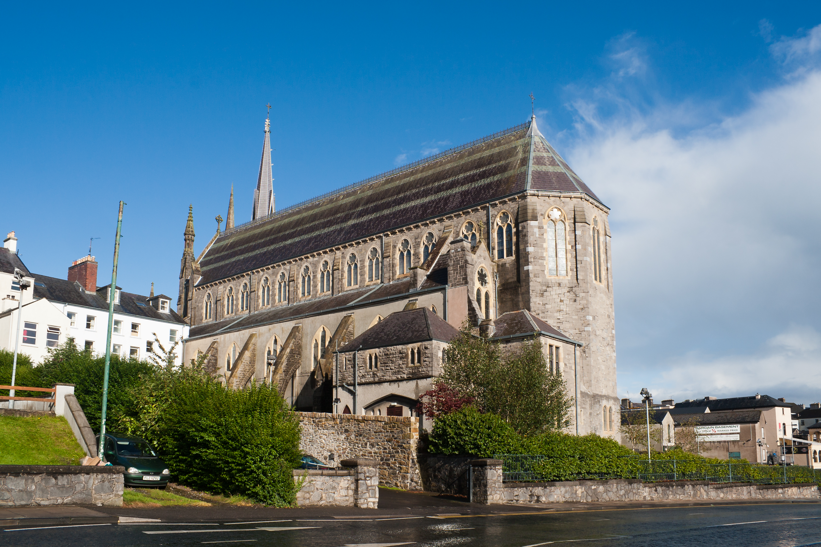 St. Michael's Church as seen from Wellington Road.